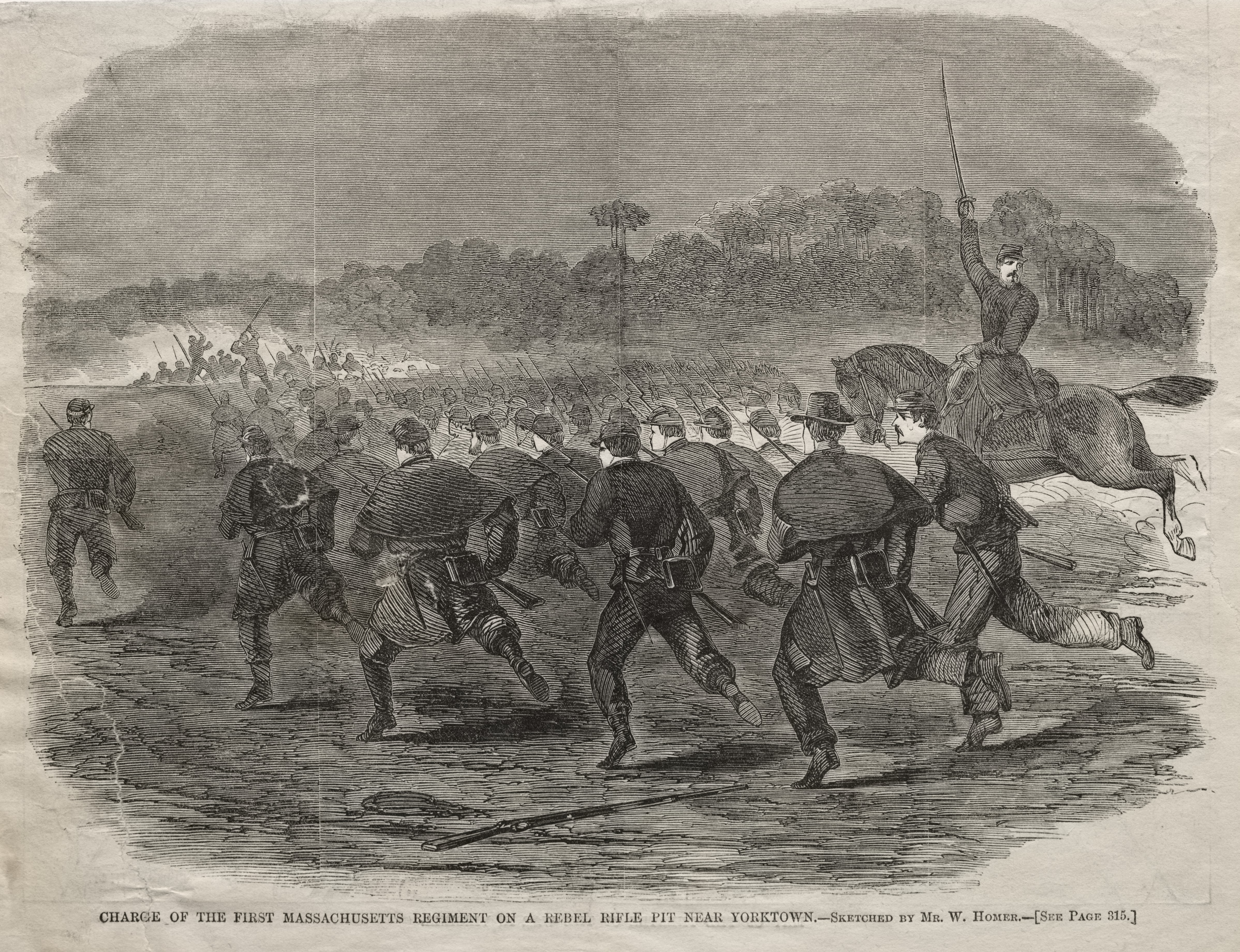 Charge of the First Massachusetts Regiment on a Rebel Rifle Pit near Yorktown, 1862. Winslow Homer (American, 1836-1910). Wood engraving; The Cleveland Museum of Art, Purchase from the J. H. Wade Fund 1942.1255